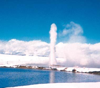 "Old Perpetual" geyser at Hunter's Hot Springs near Lakeview, Oregon (USA)